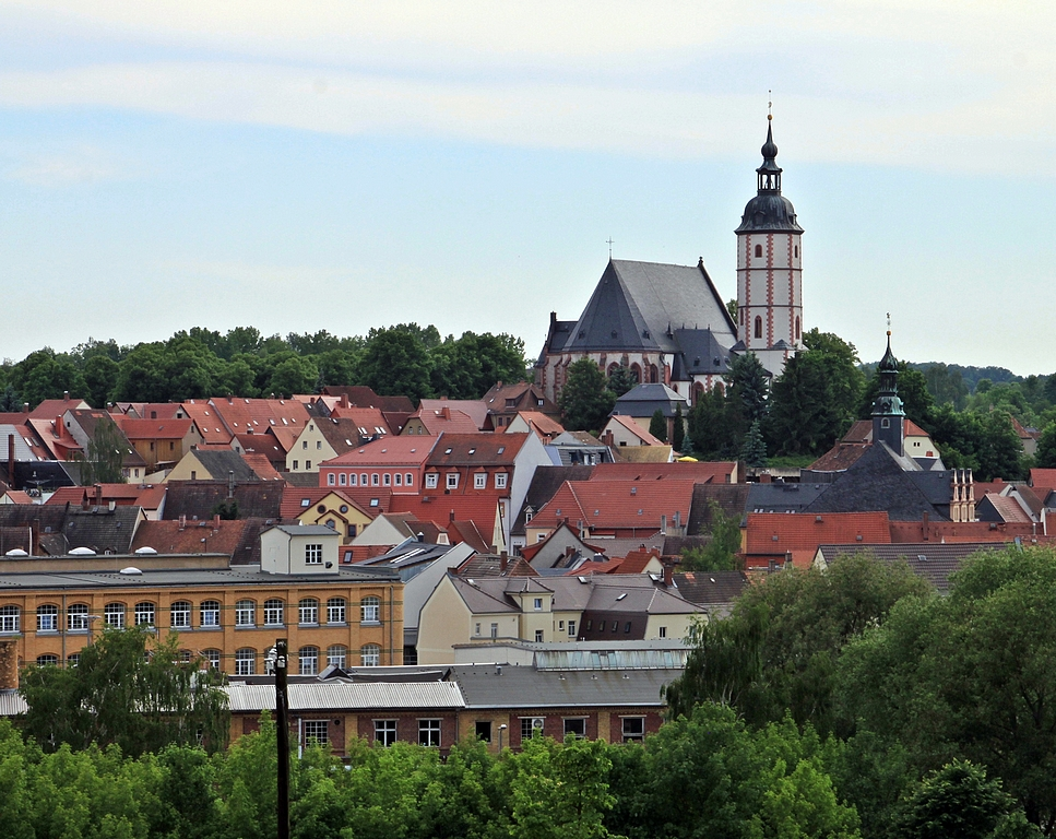 This photo shows a view on Penig with the church "Unser Lieben Frauen Auf Dem Berge" (built 1476-1515).